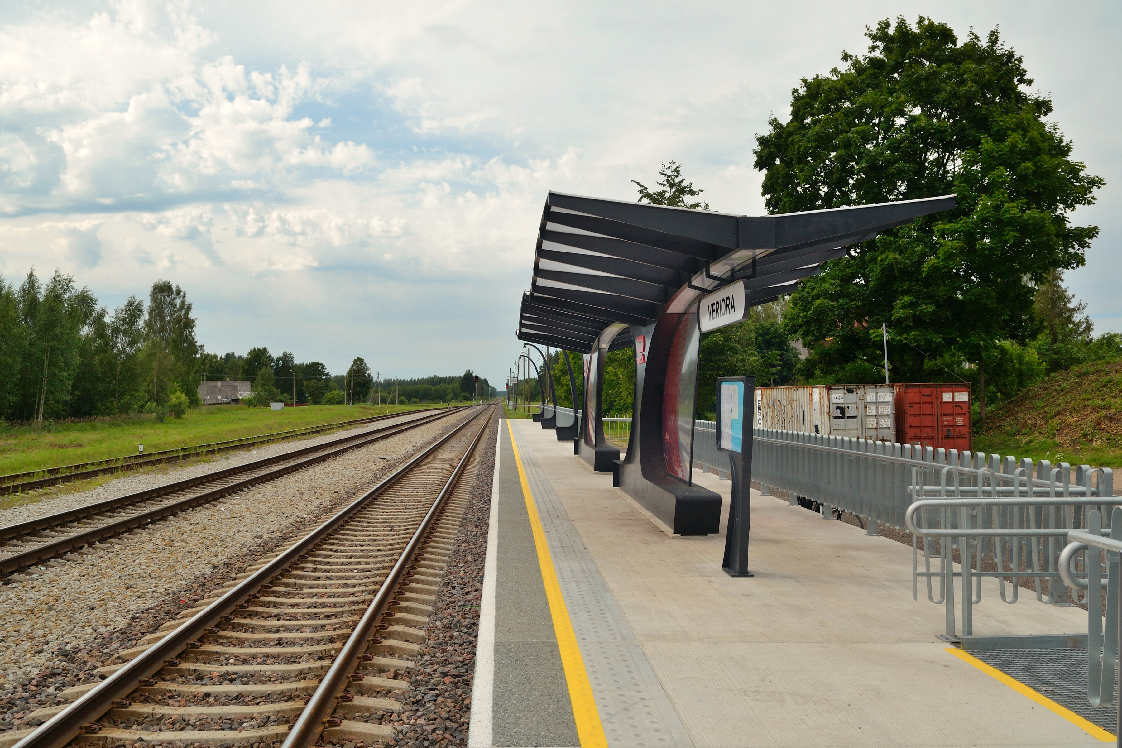 Verora station platform